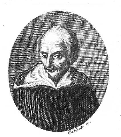 Frate Giovanni Ricciardi - Taken from the book "Biografia degli uomini illustri del Regno di Napoli" Naples, 1814-1822